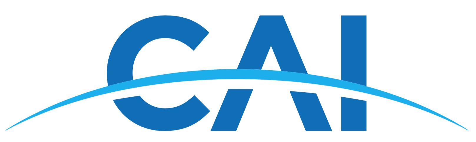 Logo of "Centro Argentino de Ingenieros" (CAI).